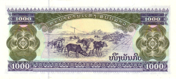 1000 Laotian kip in 2003 Reverse